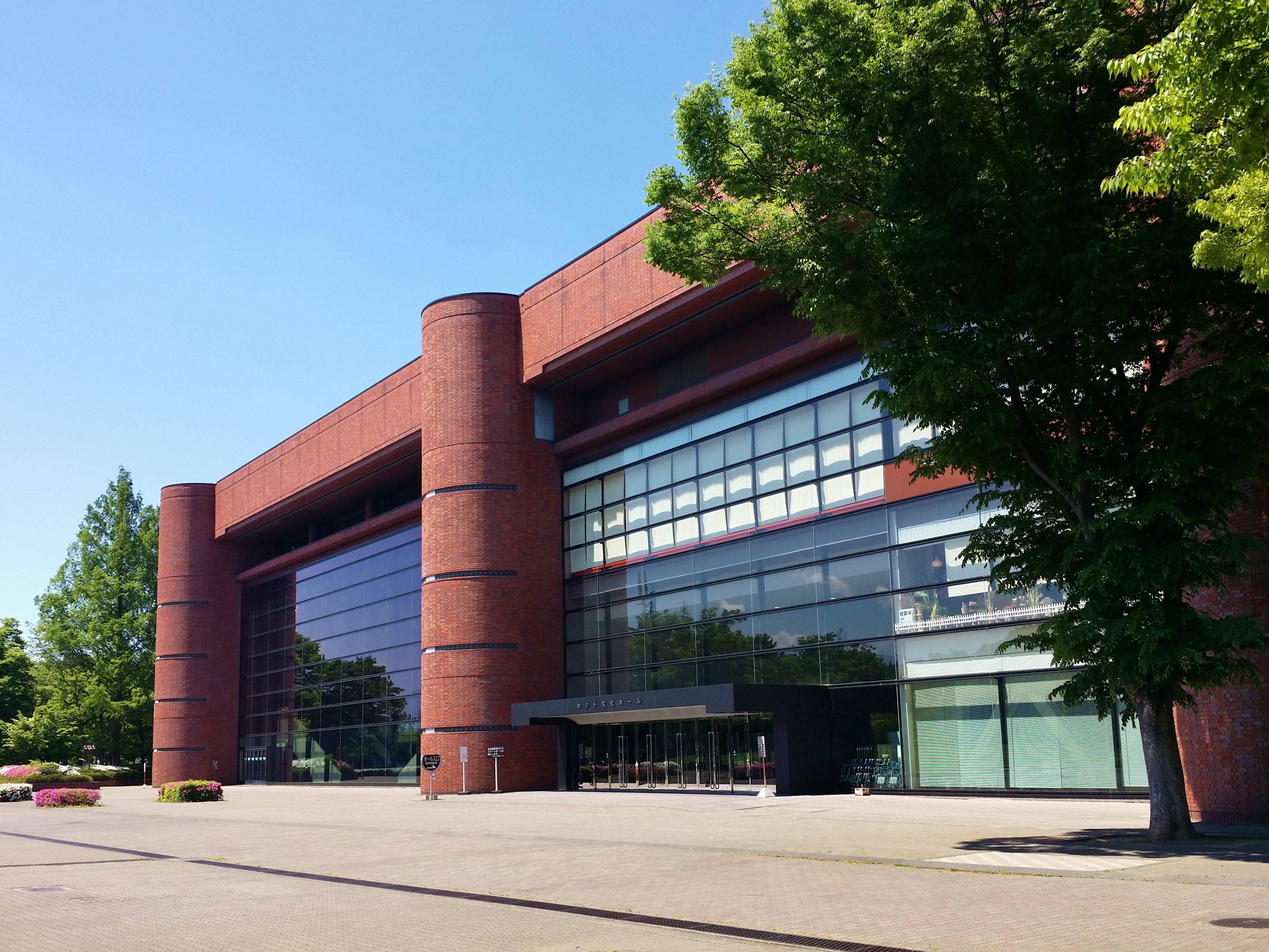 Naganoken Kenmin Bunka kaikan (Hokto Cultural Hall).